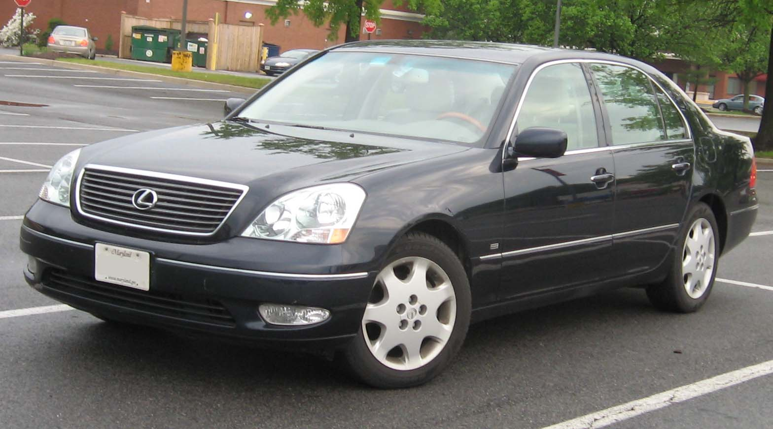 2001-2003 Lexus LS430 photographed in USA.